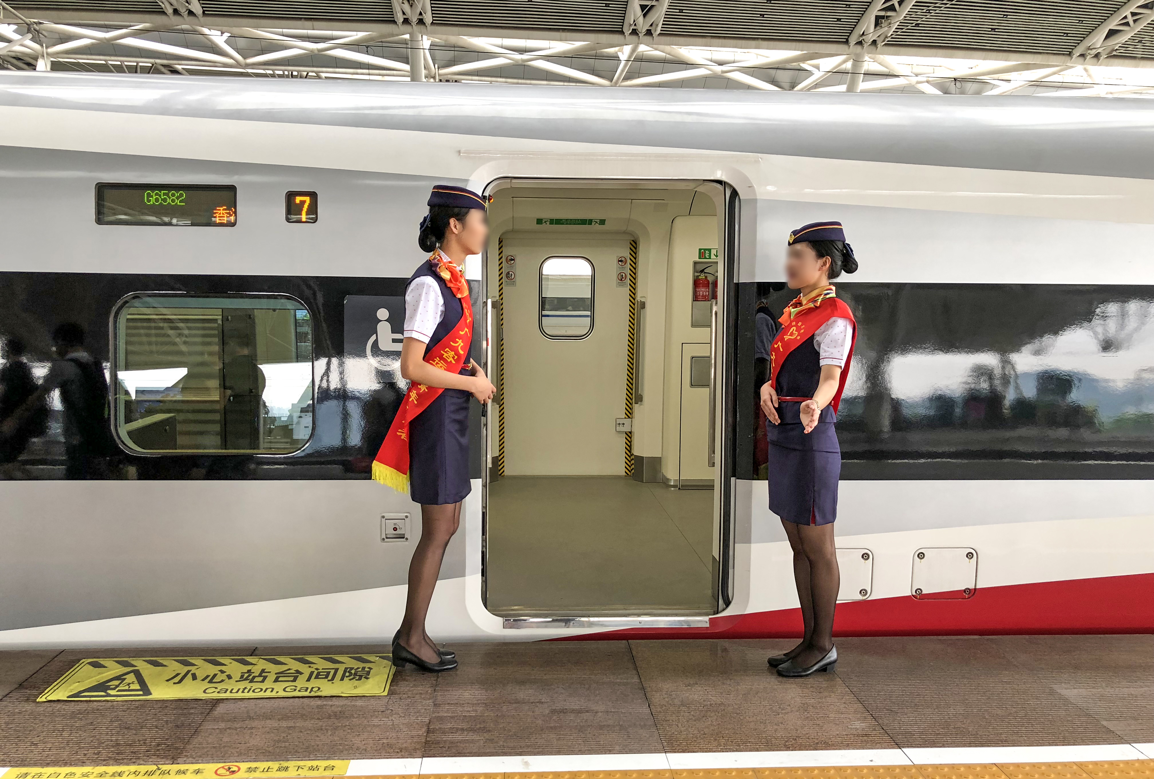 Upon arrival, G6582 was greeted by Guangjiu Passenger Transport Department.